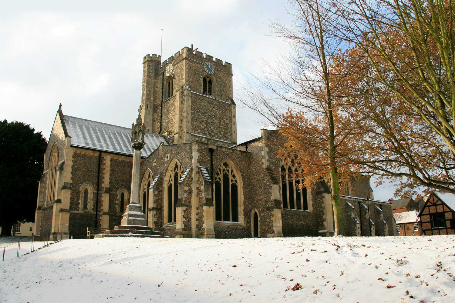 St Peter's parish church, Great Berkhamsted, Hertfordshire, England. View from the north-east, showing the Lady Chapel, old chancel and the 85-foot-high crossing tower.